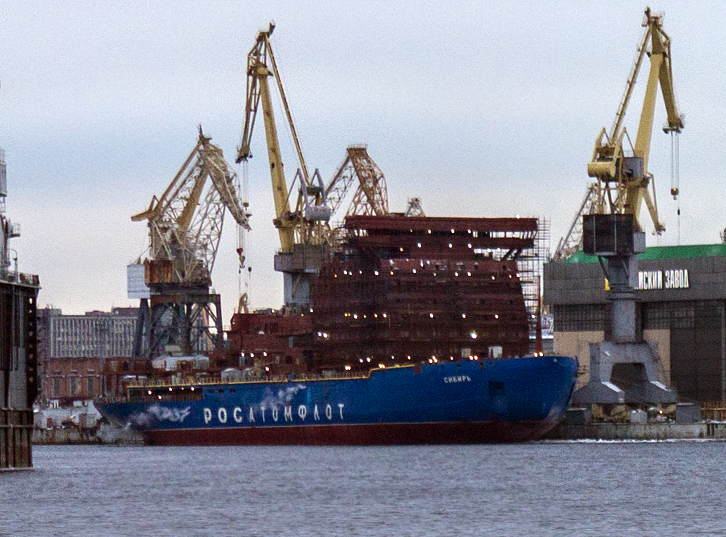 Sibir under construction (project 22220). Baltiyskiy Zavod, Saint Petersburg